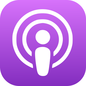 Podcast logo